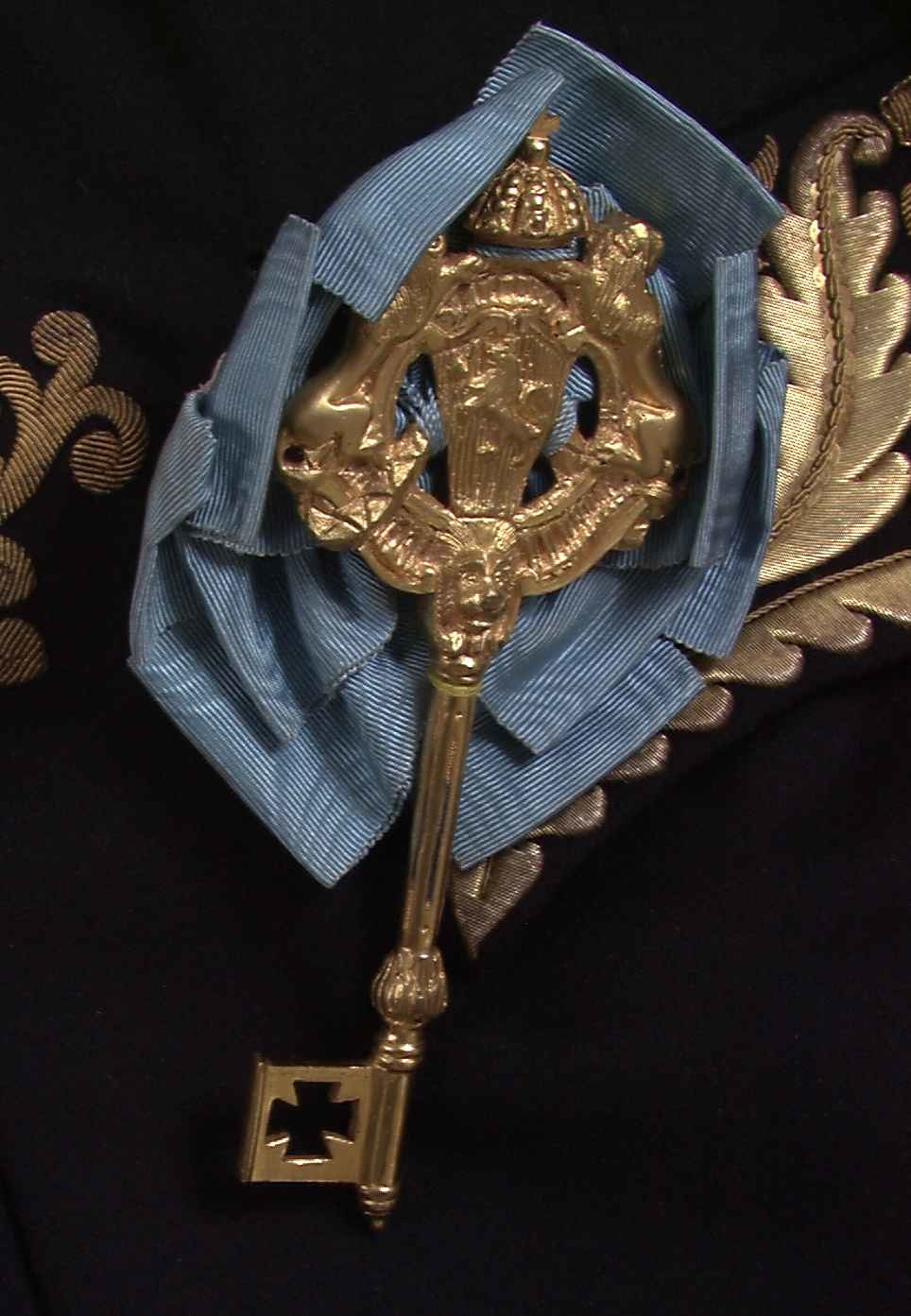 Chamberlain's key, Norway. Cast in brass, silk ribbon. Donated to Norsk Folkemuseum, 1924. Bilde fra Norsk Folkemuseum , DigitalMuseum.